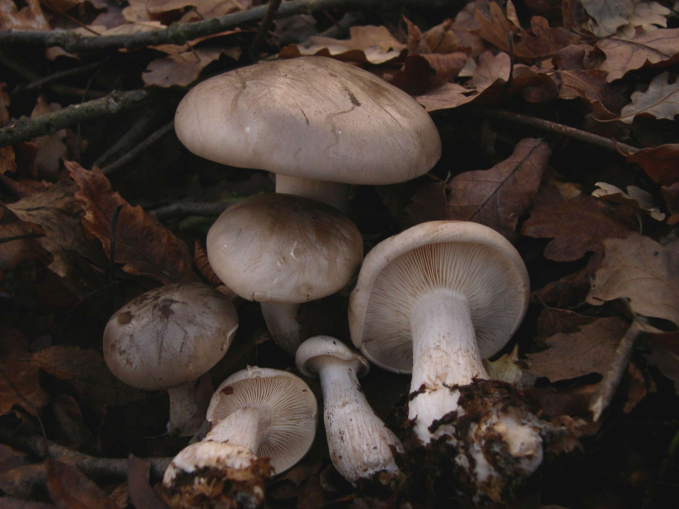 Lepista nebularis (Fr.) Harmaja, Karstenia 14: 91 (1974)